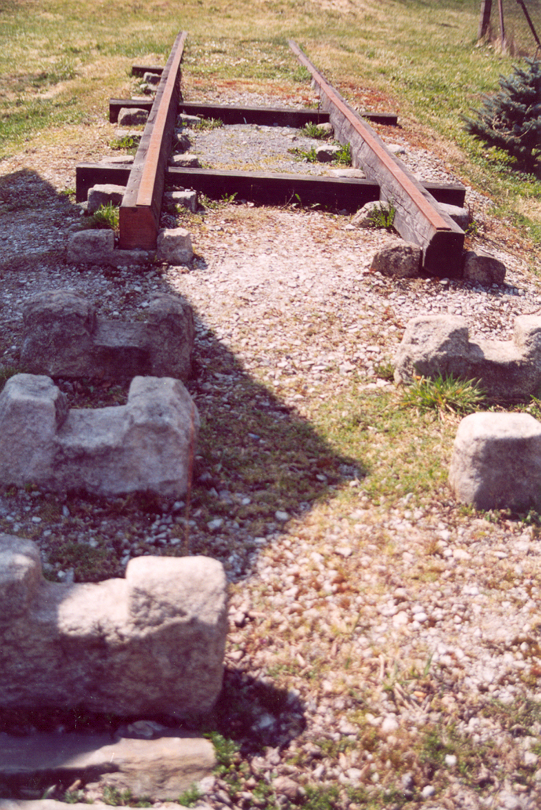 Partially reconstructed track of horse railway České Budějovice - Linz